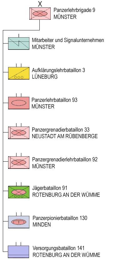 9th Panzerlehr Brigade Graphic